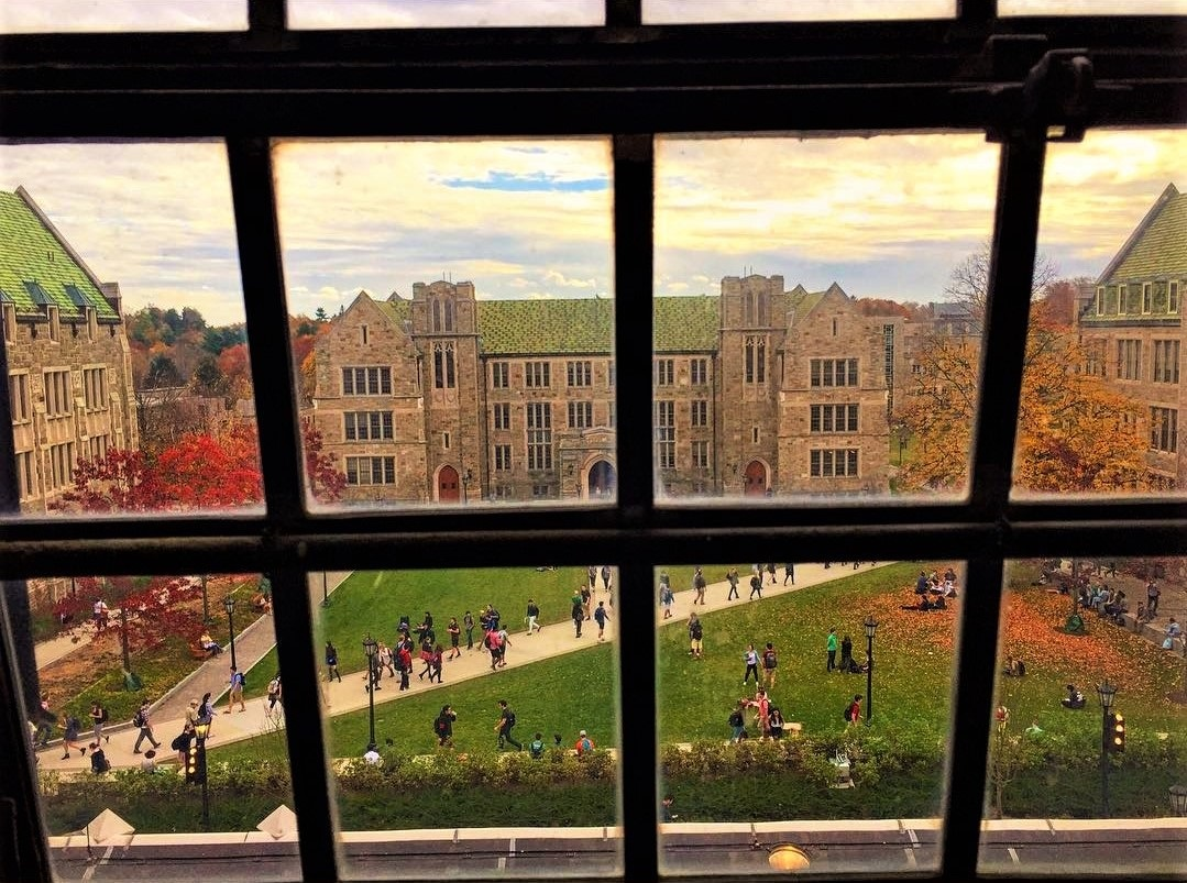 Students walking through a quadrangle on the campus of Boston College.